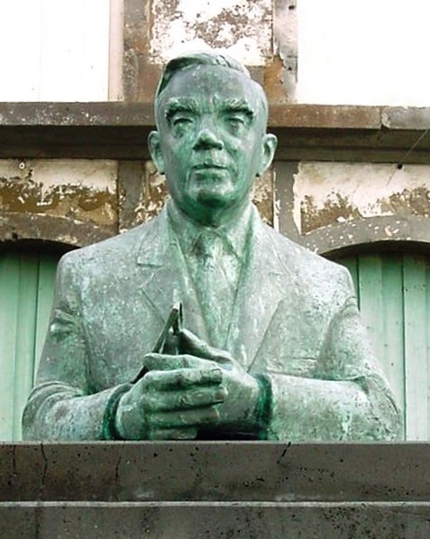 Vitorino Nemésio statue in the Azores islands, Portugal